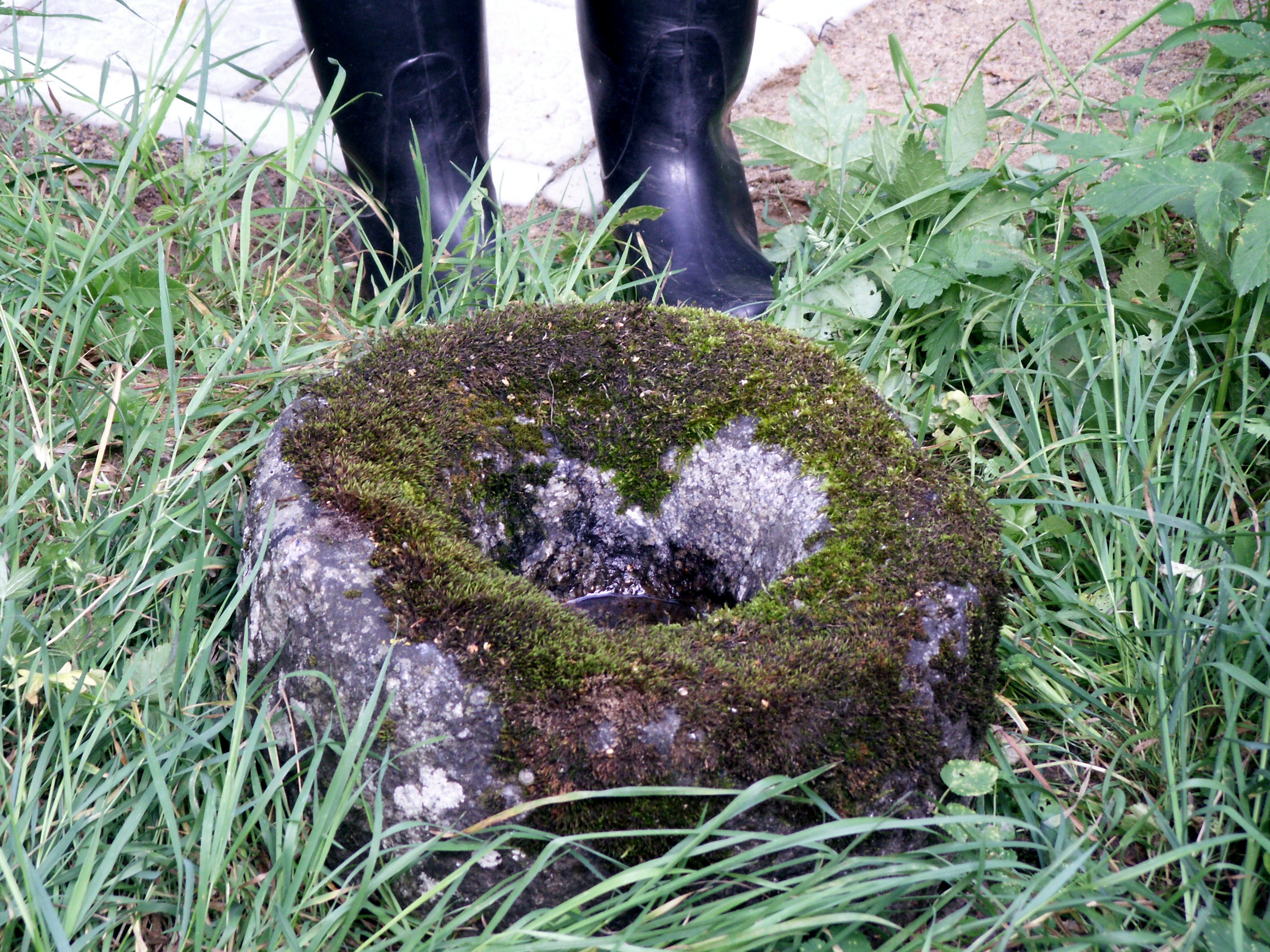 Sanct stone in Kurtuvėnai hillfort, Kurtuvėnai regional park, Lithuania